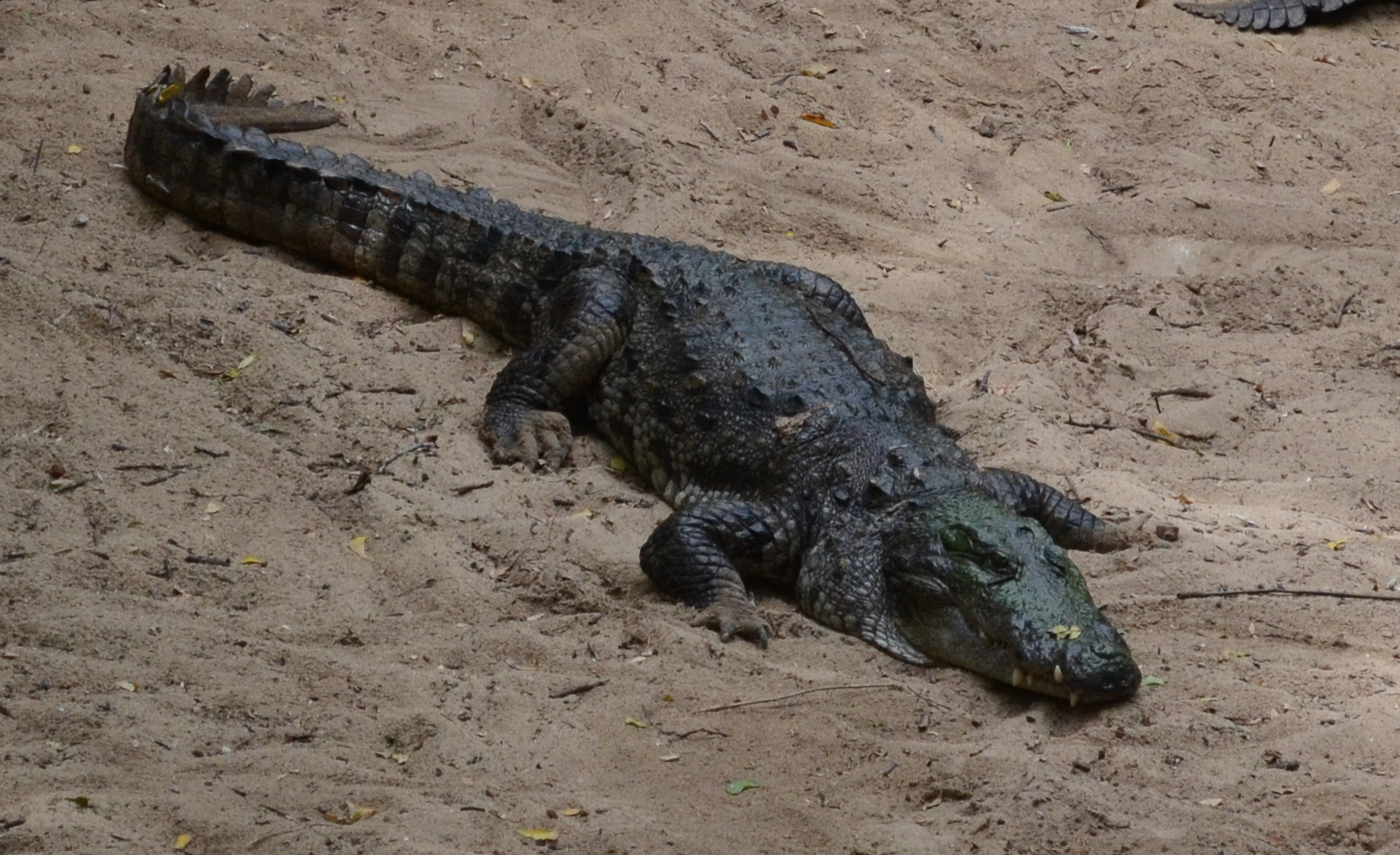 indian marsh crocodile are one of the three crocodilian species found in india.